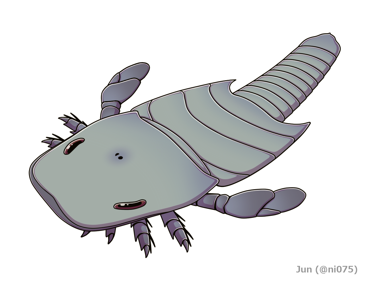 Reconstruction of Diploaspis praecursor, a silurian chasmataspidid. The eyes, swimming limbs and telson are inferred from the other Diploaspis species.